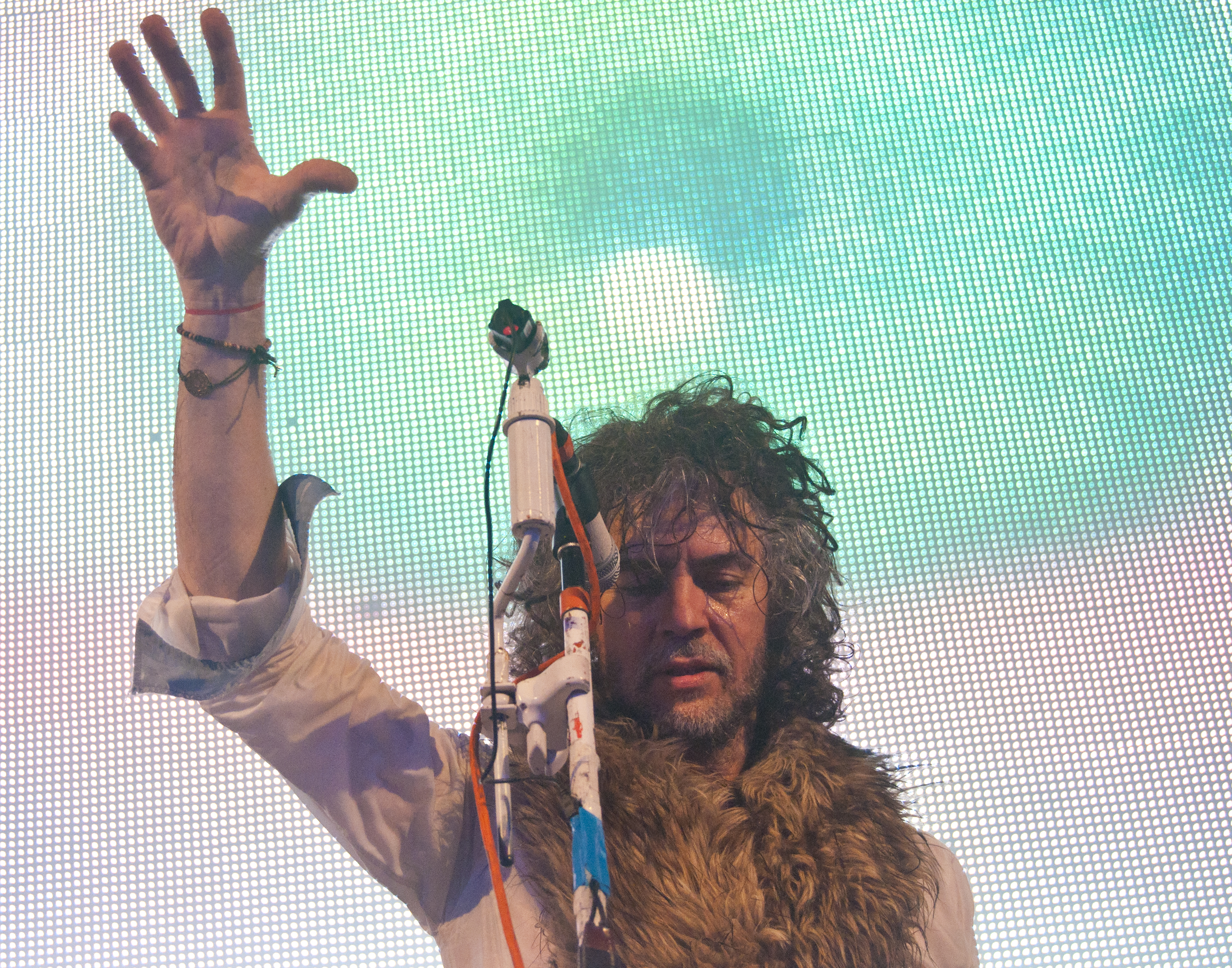 Wayne Coyne in a 2012 concert of The Flaming Lips at the Liberty Hall in Lawrence, Kansas.